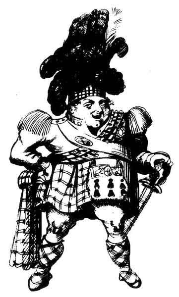 Contemporary caricature of King George IV in kilt during the Visit of King George IV to Scotland in 1822. Image from The King's Jaunt, John Prebble, Birlinn Limited, Edinburgh 2000, ISBN 1-84158-068-6 : Captioned As { }